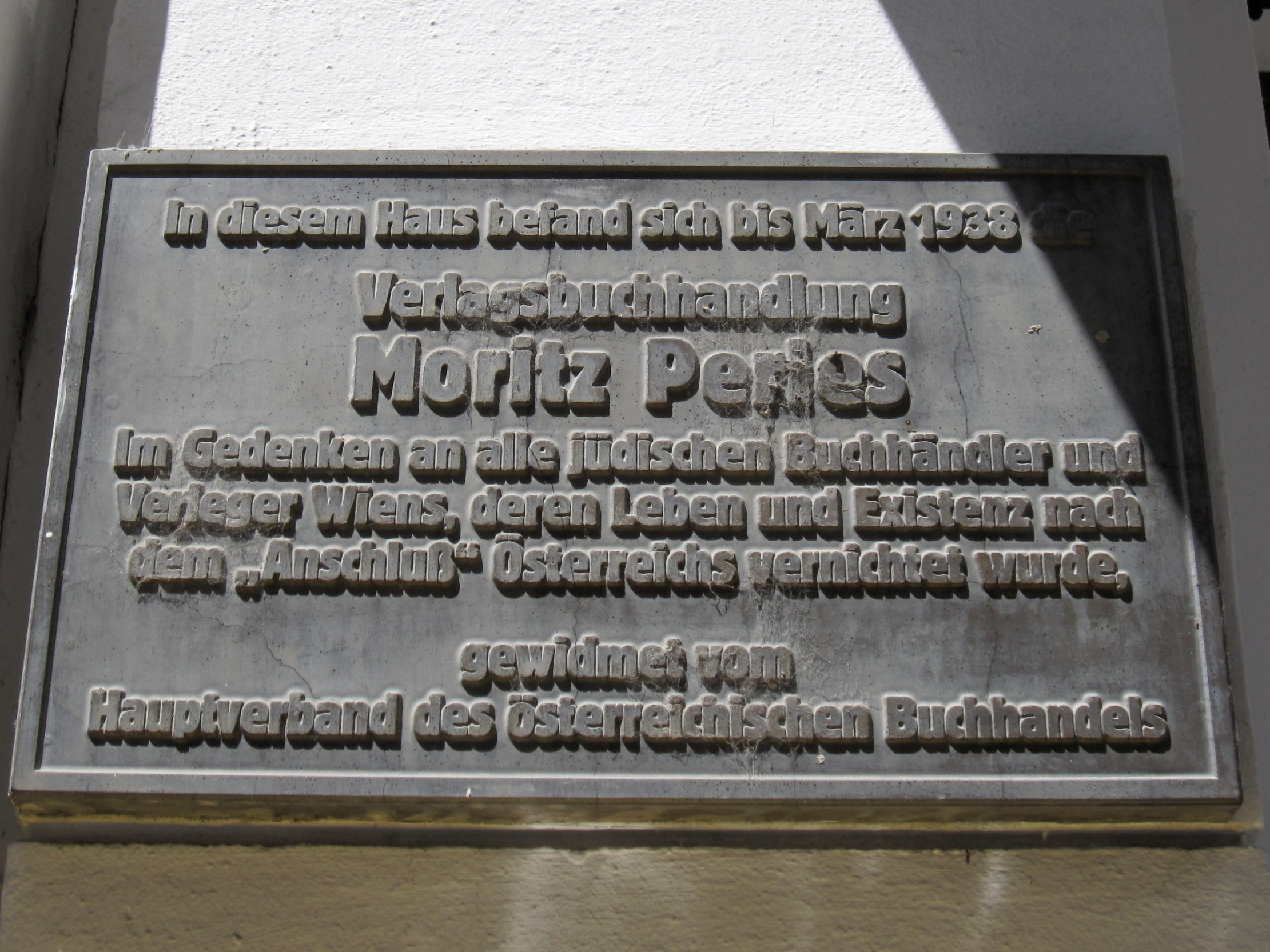 Memorial plaque to the bookstore Moritz Perles, which was confiscated by the Nazis in the late 1930's.